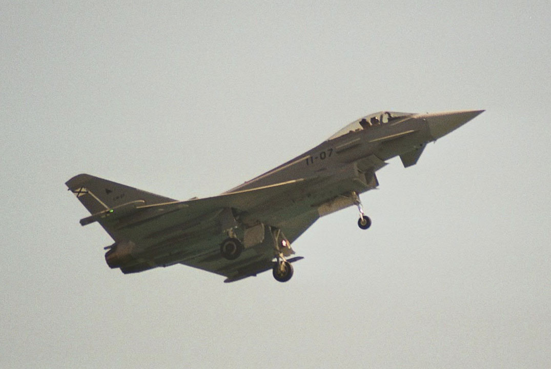 Spanish Air Force Eurofighter Typhoon in the Festa del Cel, in Barcelona (Spain).